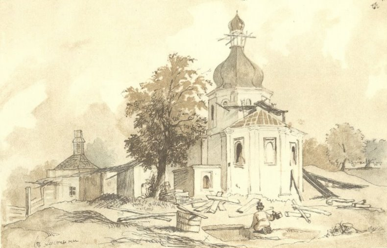 a picture of Shevchenko from the album of 1845 (the return sheet 16), executed in 1845. The picture shows the Dining Room of the Gustaisk Monastery.